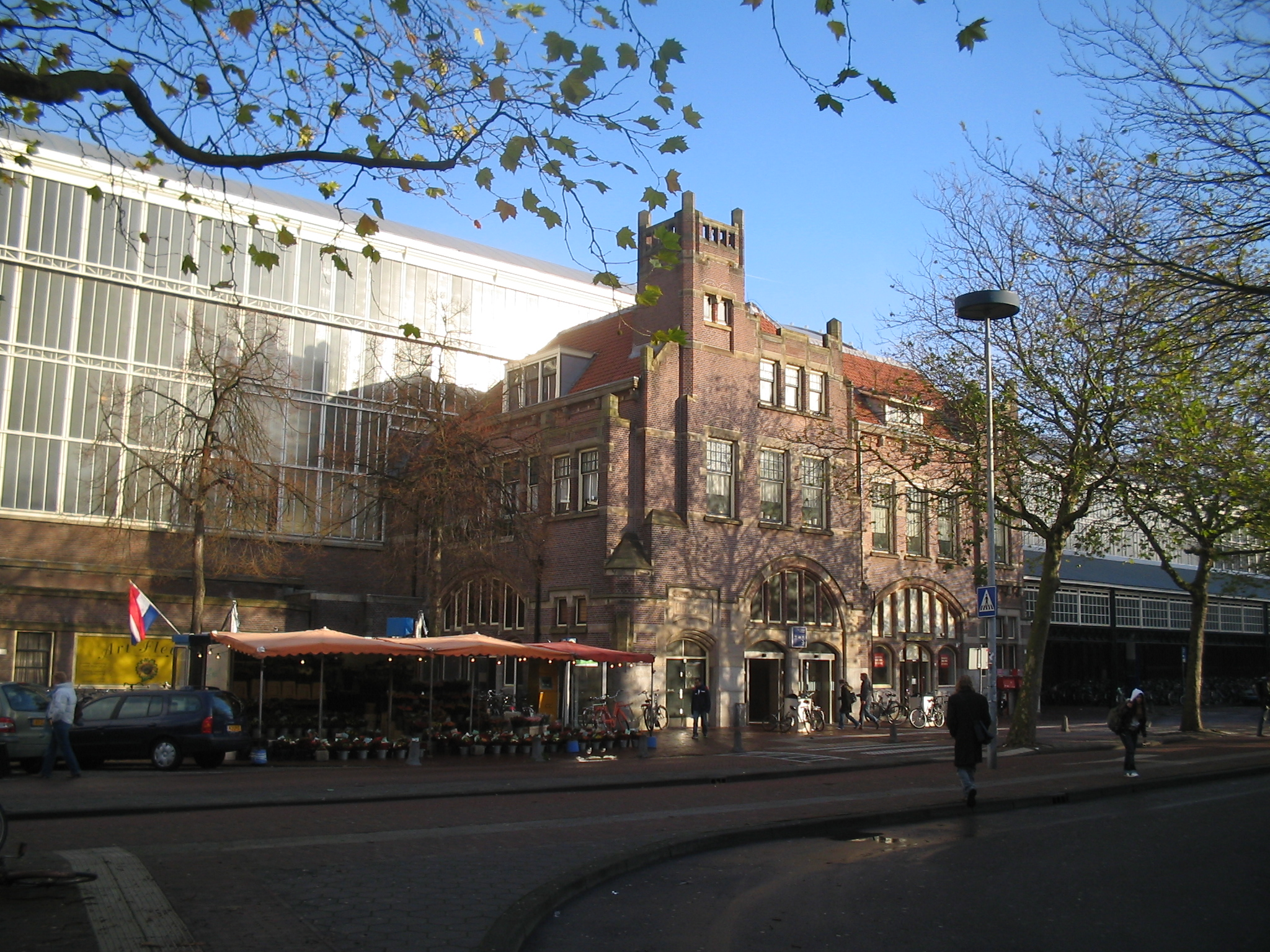 The side entrance of station Haarlem